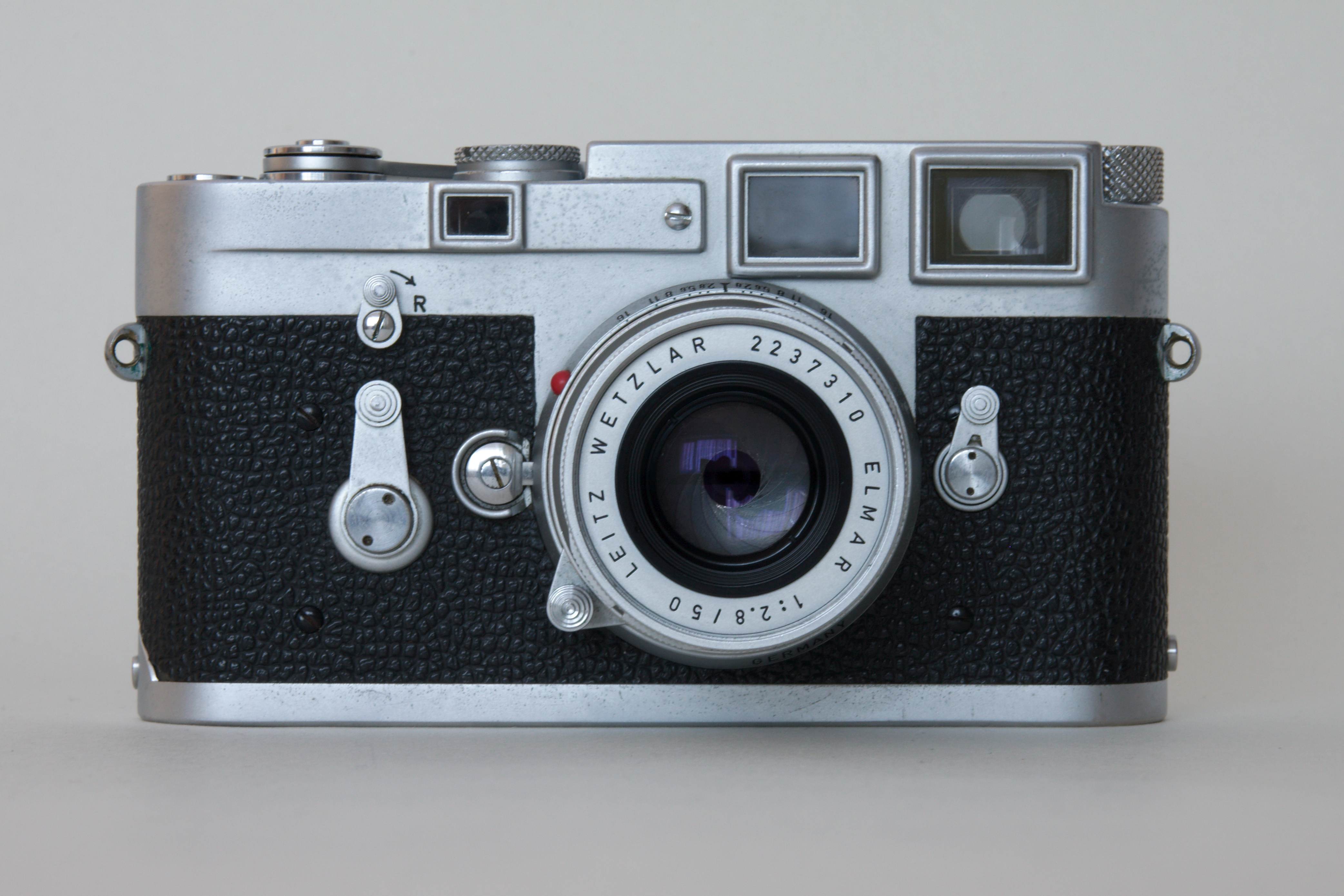 Leica M3 & Elmar 50mm f/2.8